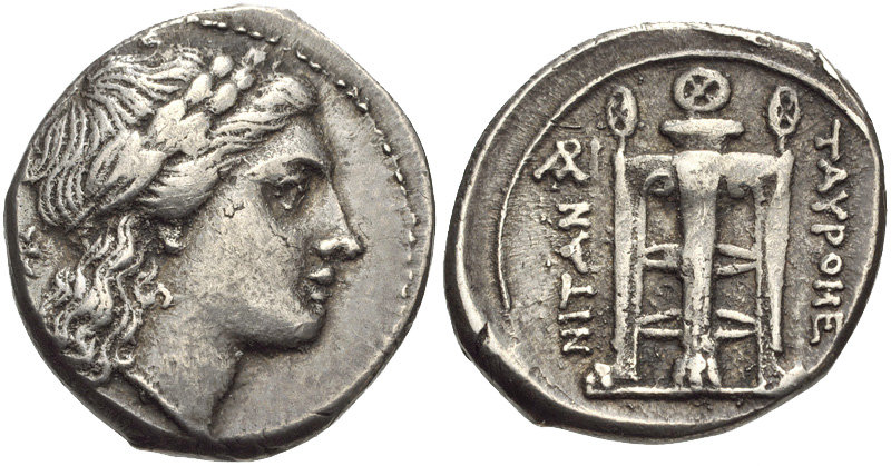 SICILY, Tauromenion. Circa 304-289 BC. AR 4 Litrai – Drachm (16mm, 3.22 g, 11h). Laureate head of Apollo right; star behind / Tripod.